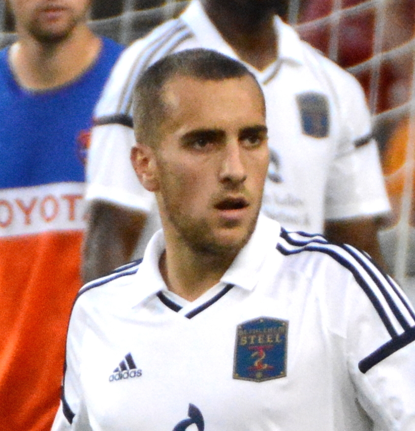 Santi Moar Taken during a match between FC Cincinnati and Bethlehem Steel FC at Nippert Stadium in Cincinnati, USA on May 20, 2017.